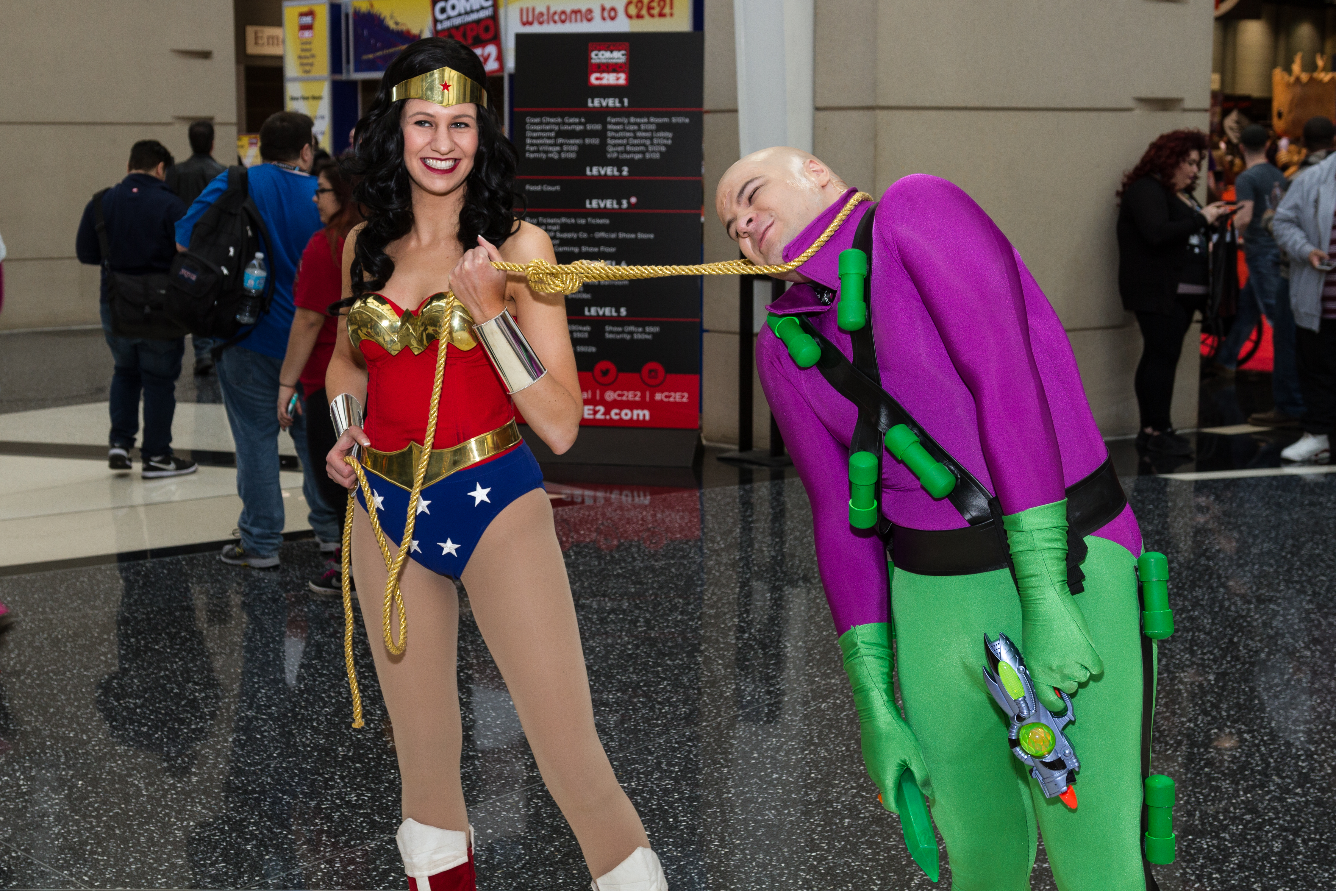 c2e2 2016-March 18, 2016-0013.jpg Cosplay at Chicago Comic & Entertainment Expo (C2E2) 2016.